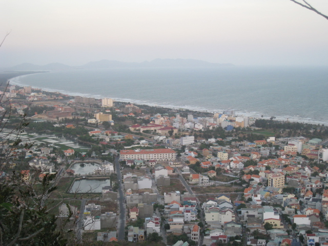 Vung Tau city seen from Small Mount